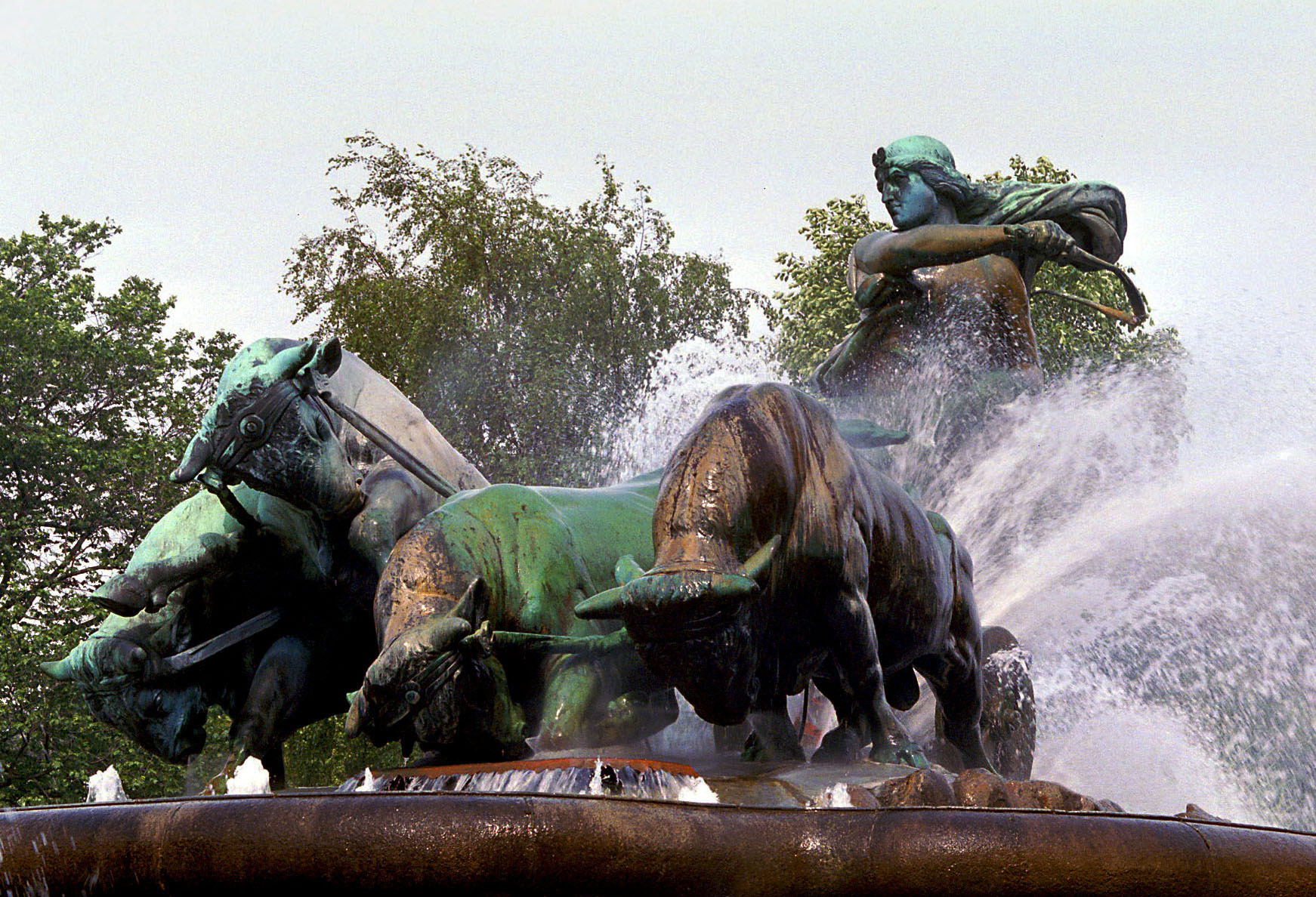 Close-up of the sculpture group of the Gefion Fountain in Copenhagen.